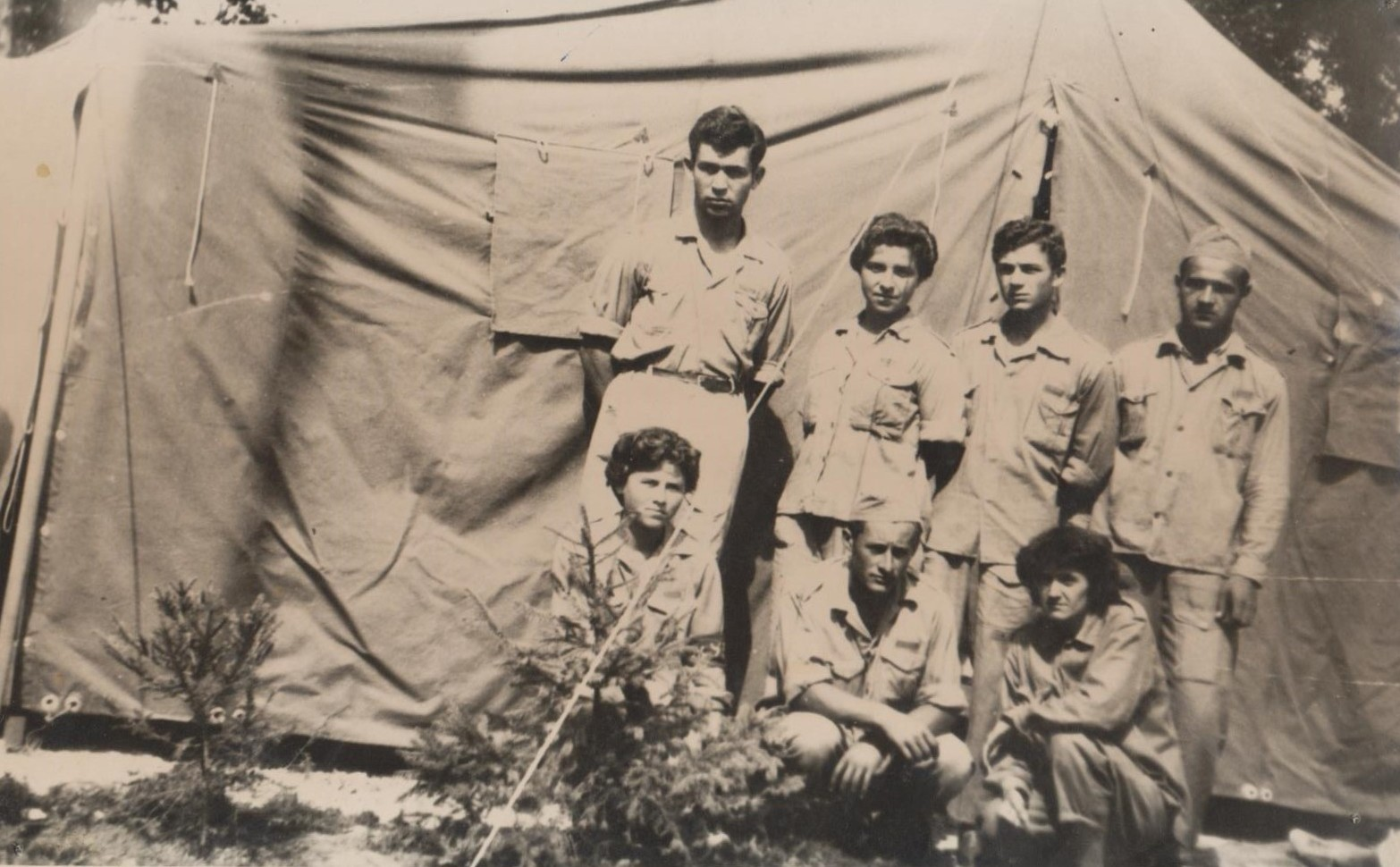 Leaders of brigades from Vranje and Pirot, 1958